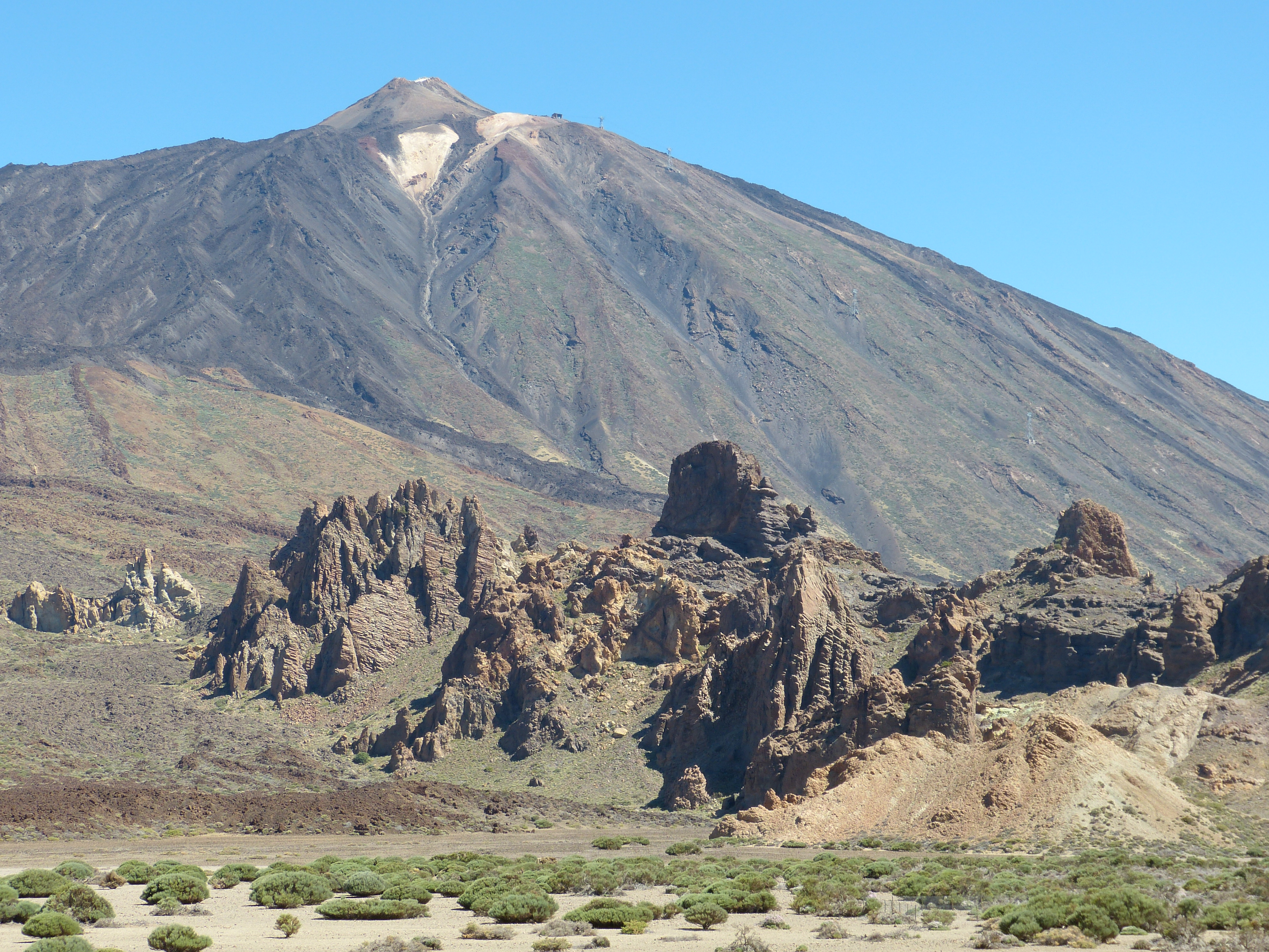 Highest mountain of Spain. Located in the middle of the Canary Island 'Teneriffa'.